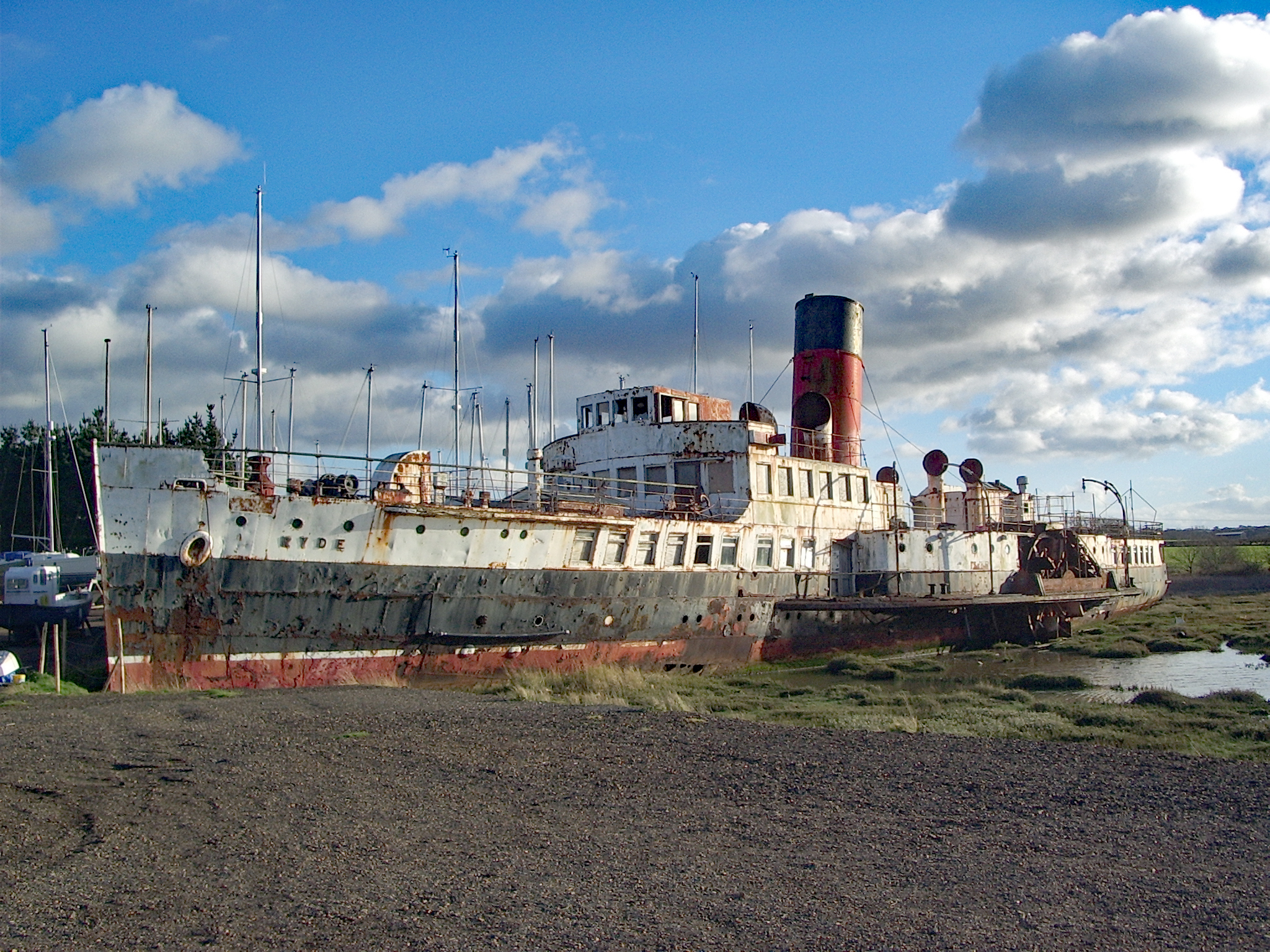 PS Ryde on its mooring at Island Harbour Marina